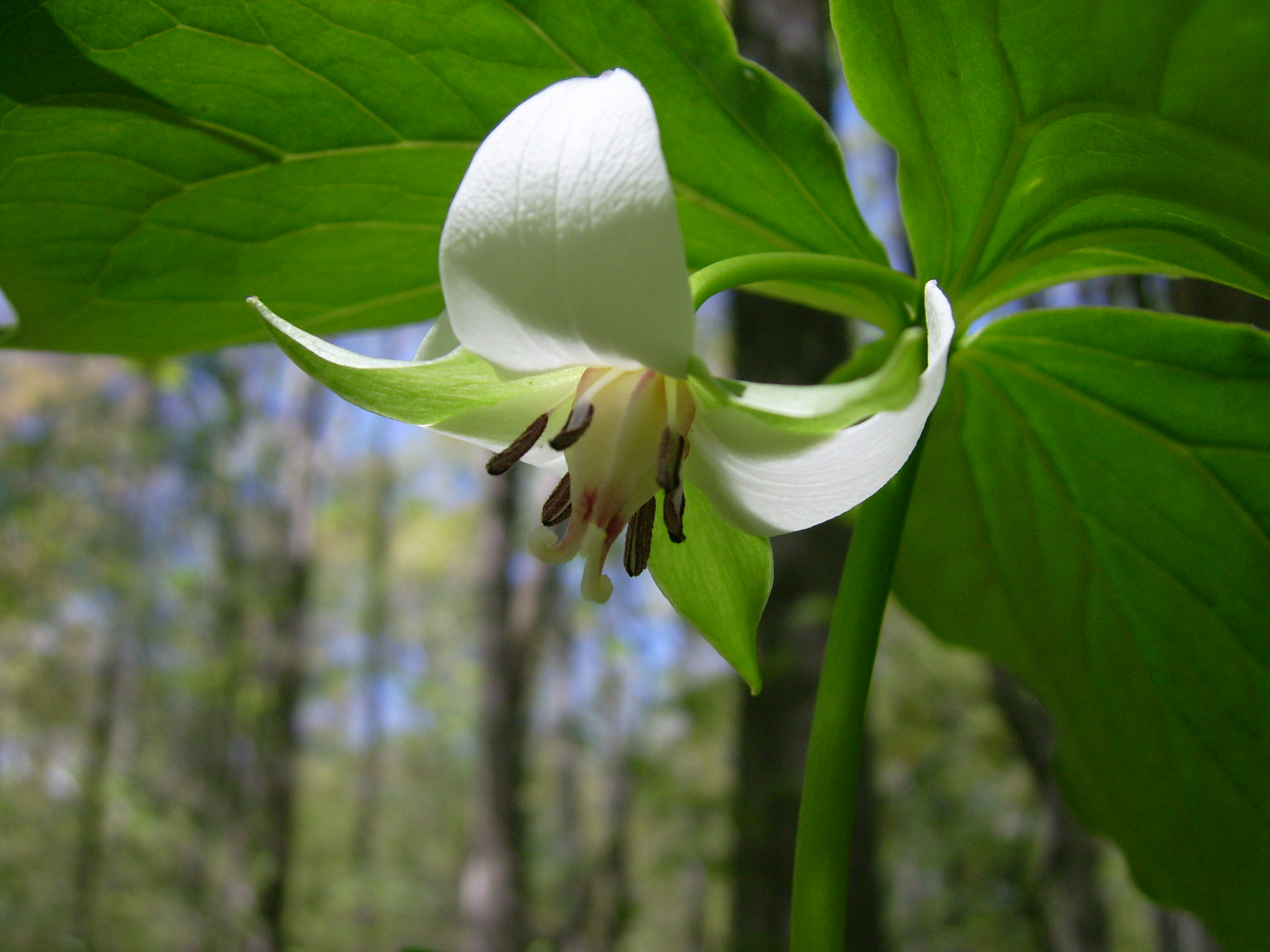 Nodding trillium (Trillium cernuum) flower Sault College woodlot, Sault Ste. Marie, Ontario, Canada